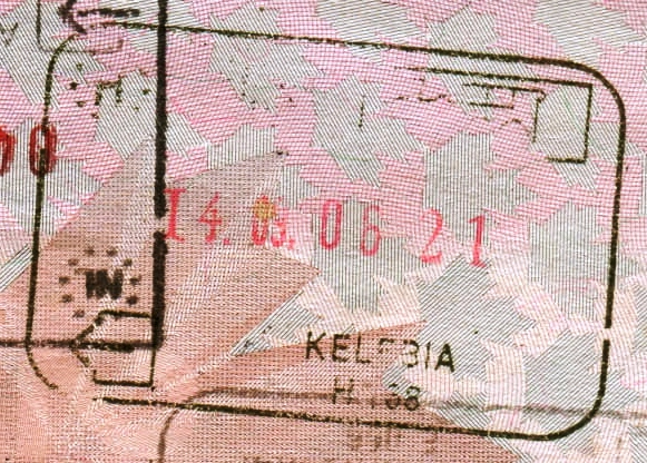 Passport stamp from Kelebia crossing, 2006